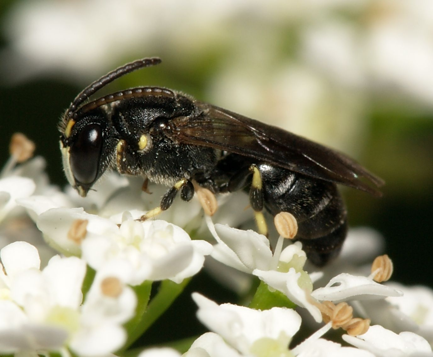 male Hylaeus signatus from Koenigsforst near Cologne, Germany.